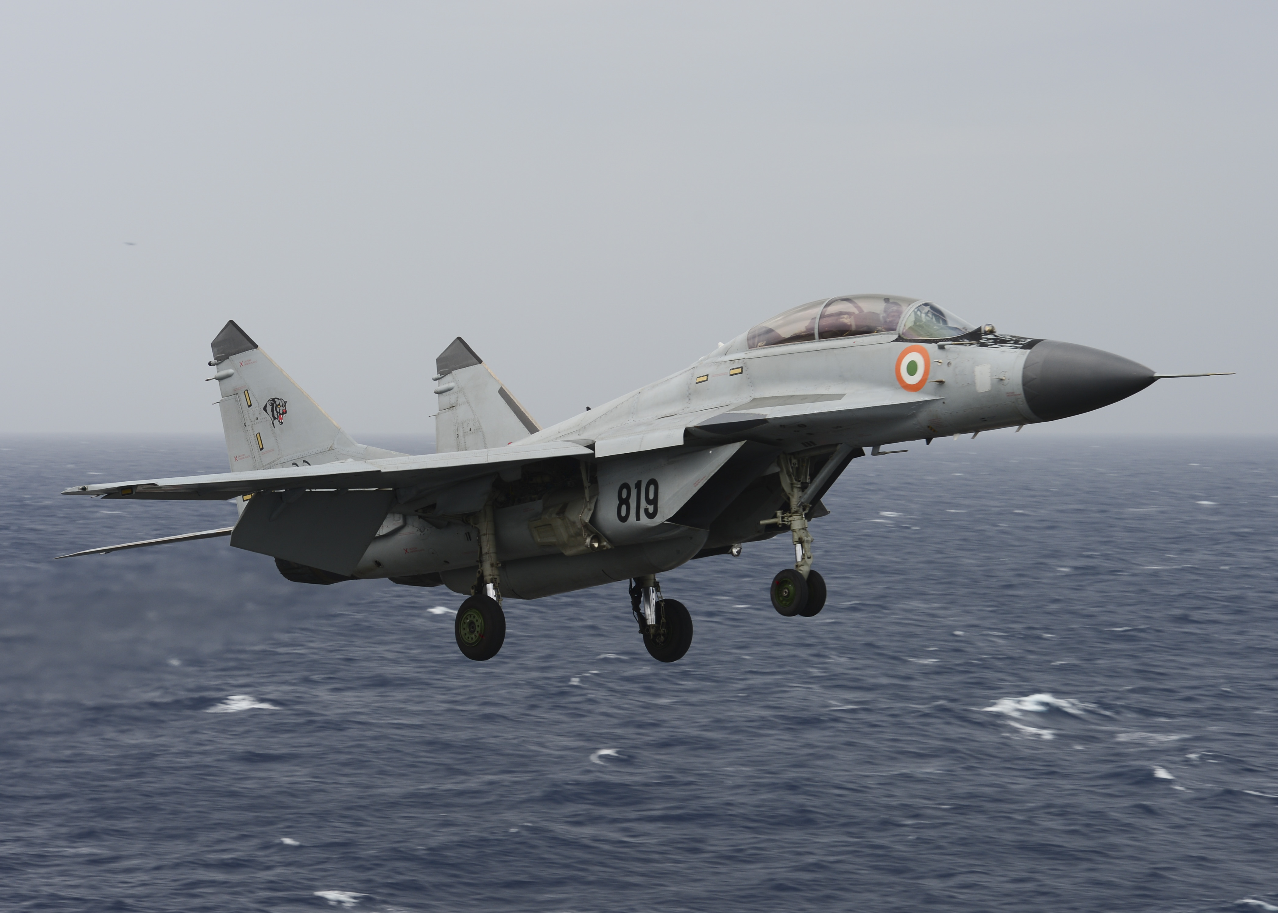 170716-N-OV009-063 BAY OF BENGAL (July 16, 2017) An Indian Navy MIG-29K Fulcrum flies over the aircraft carrier USS Nimitz (CVN 68) during Exercise Malabar 2017. Malabar 2017 is the latest in a continuing series of exercises between the Indian navy, Japan Maritime Self Defense Force and U.S. Navy that has grown in scope and complexity over the years to address the variety of shared threats to maritime security in the Indo-Asia-Pacific region. (U.S. Navy photo by Mass Communication Specialist 3rd Class Colby S. Comery/Released)